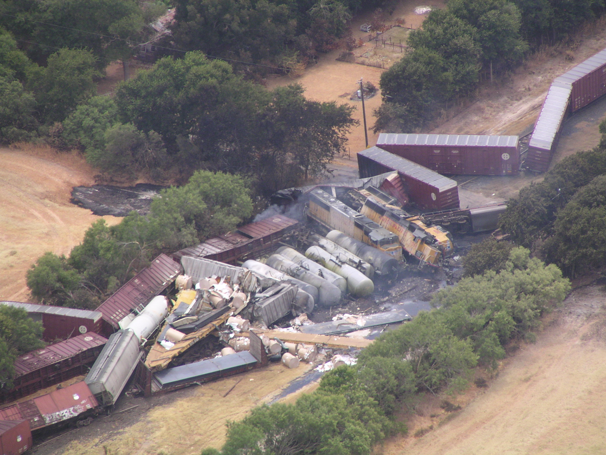 Ariel Image of Union Pacific train derailment in Macdona, Texas, a rural community near San Antonio. This image (or other media) is a work of an Environmental Protection Agency employee, taken or made as part of that person's official duties. As works of the U.S. federal government, all EPA images are in the public domain.